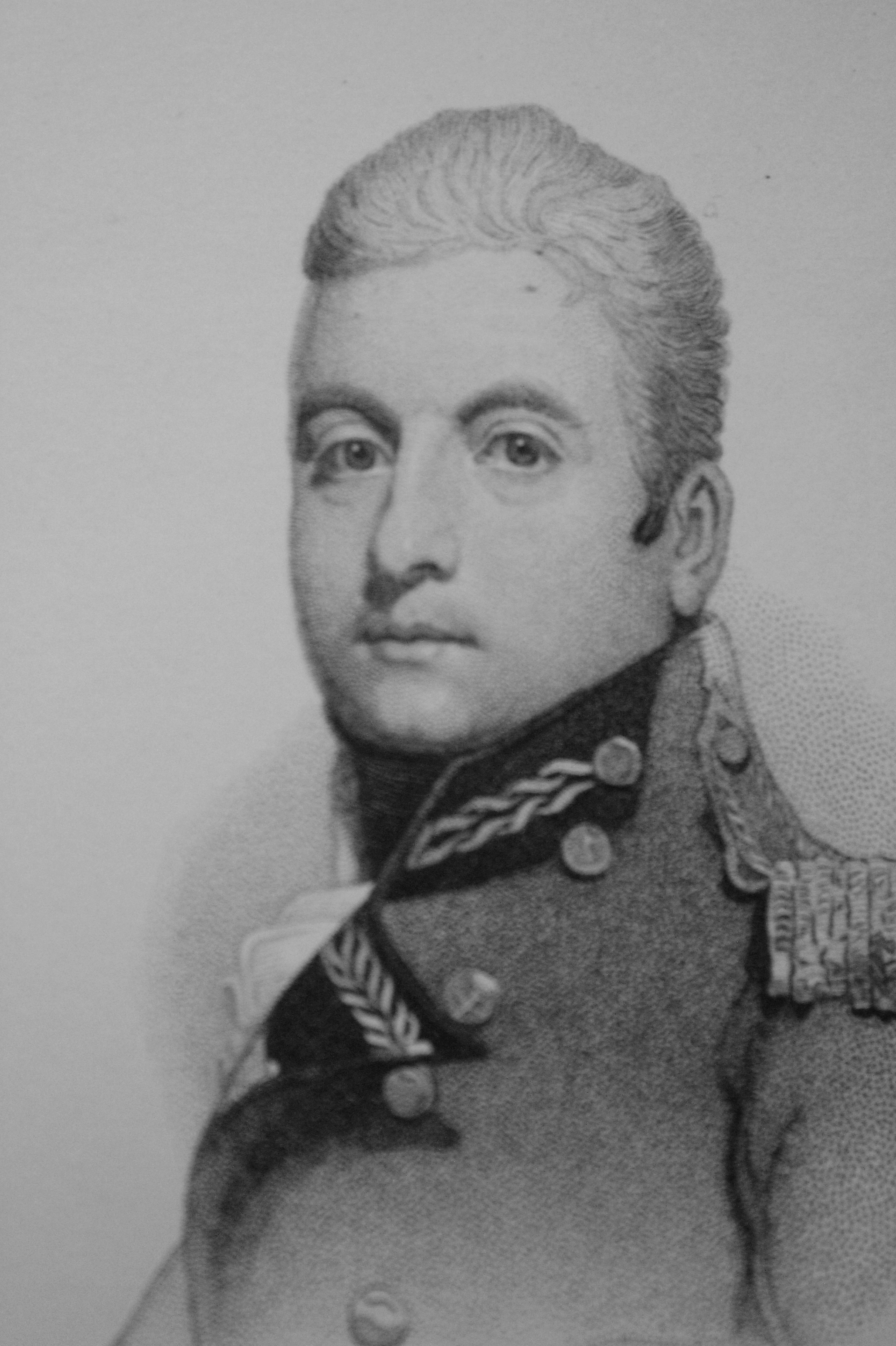 George Gordon, Marquess of Huntly